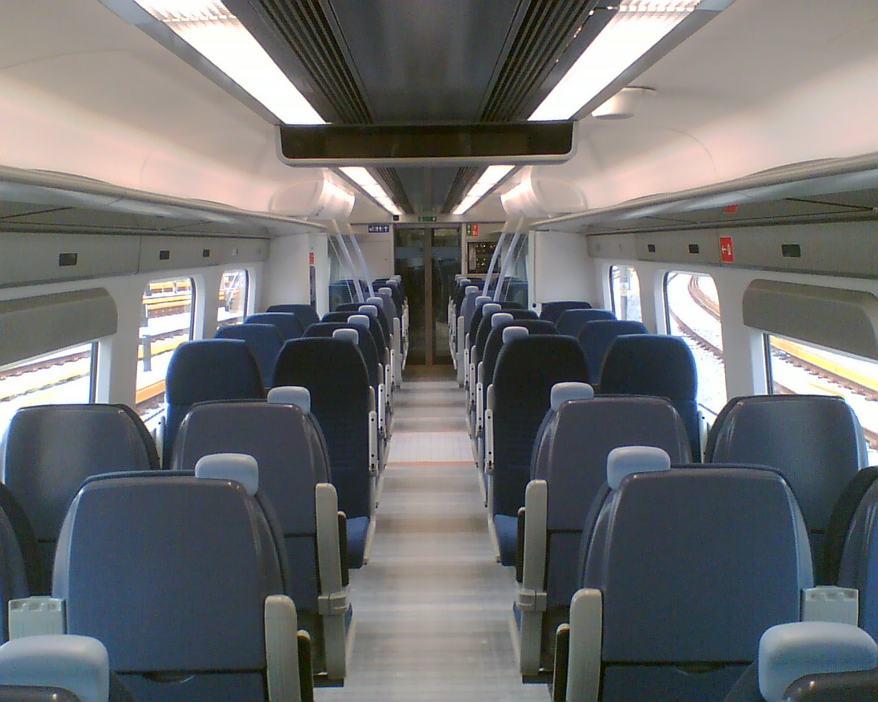 Interior photo of British Rail Class 395 number 395002 taken at Hitachi's Ashford depot.